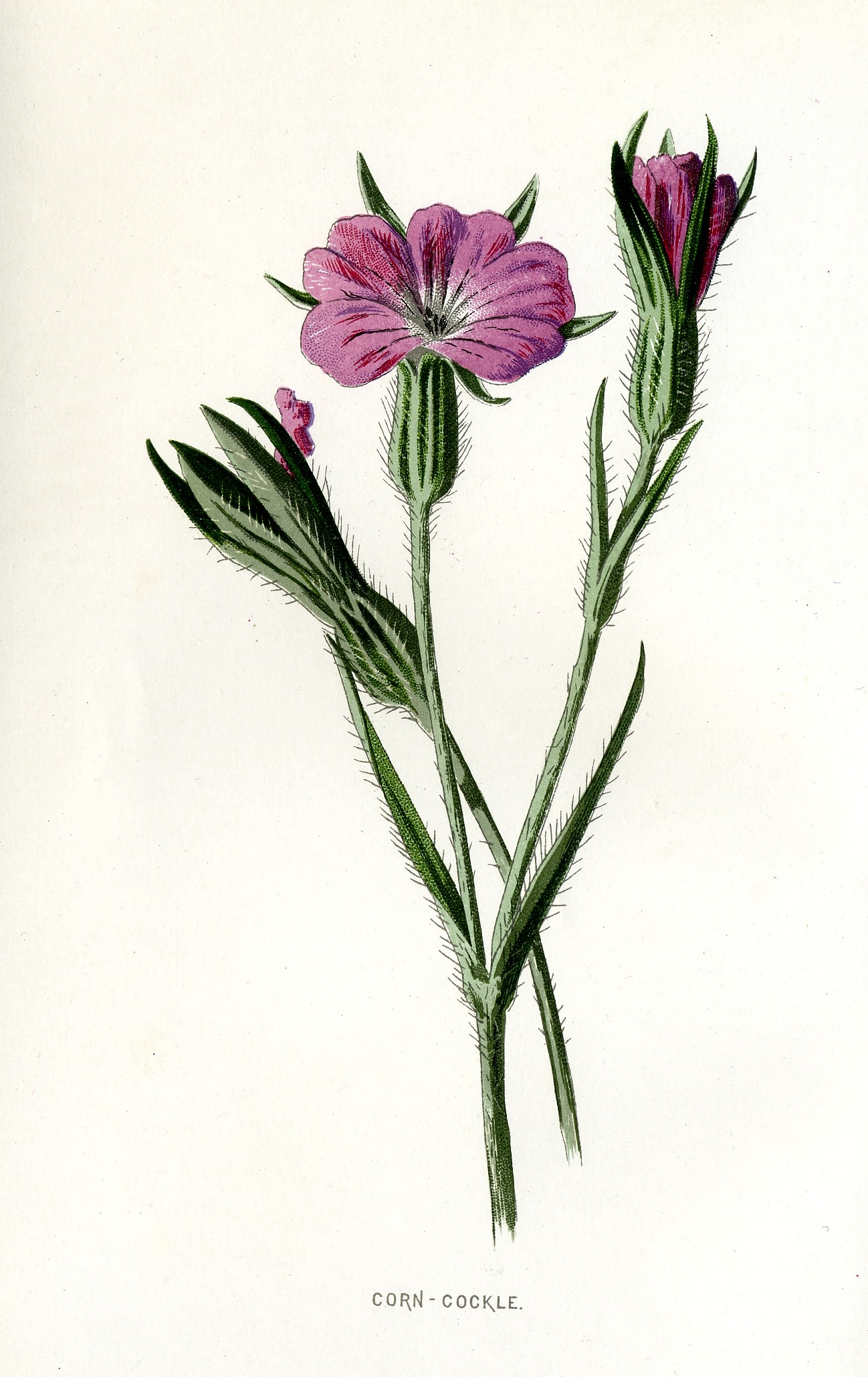 Corncockle illustration from Familar wild flowers by F Edward Hulme. Published 1896. Scanner: Epson perfection 4189 photo - resolution 300 dpi Author: User:Velela.